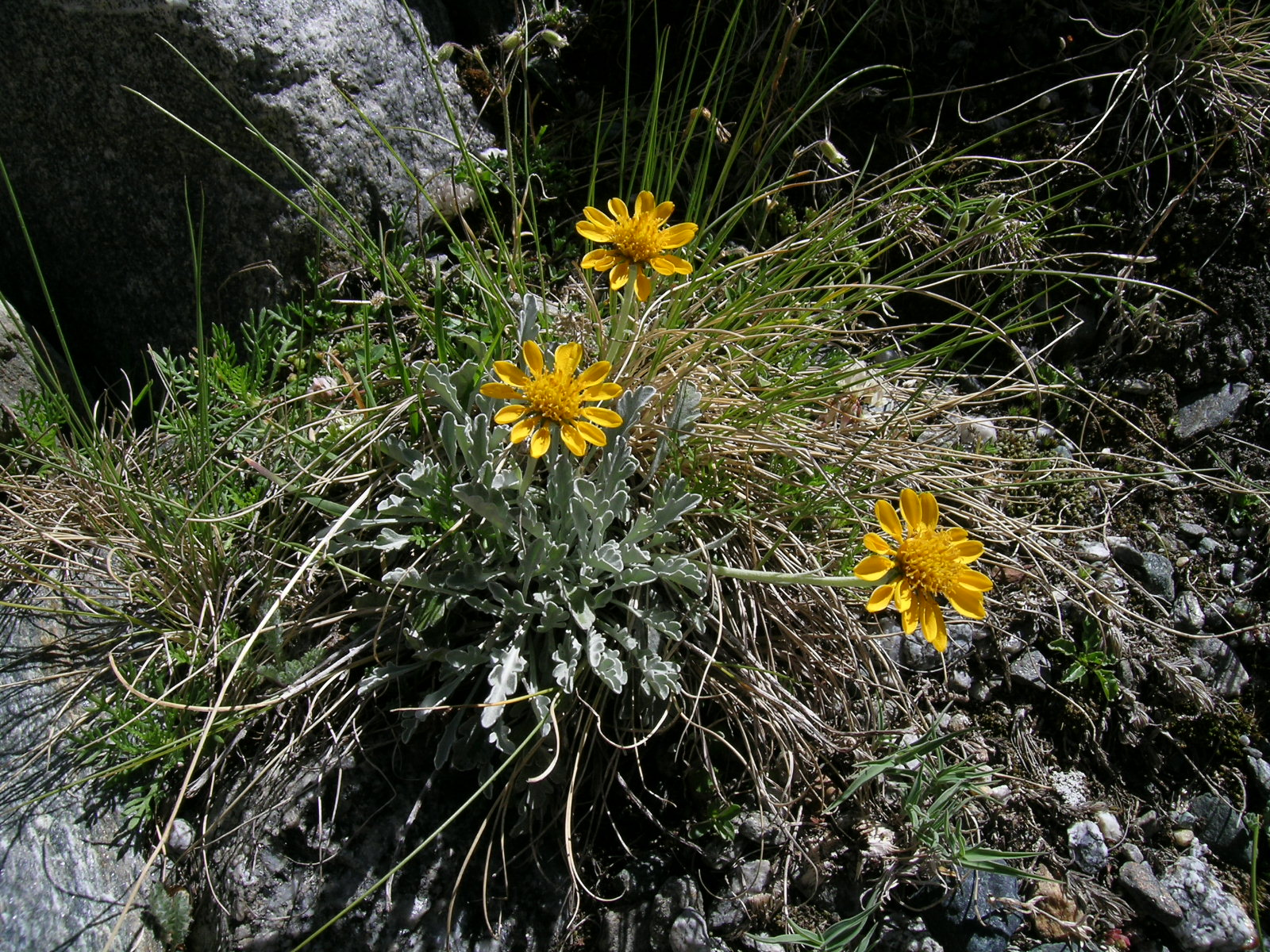 Senecio halleri Zermatt, Riffelberg (Kanton Wallis, Switzerland), 2500 m Author: Roland Teuscher – own photograph Date: 3.08.06